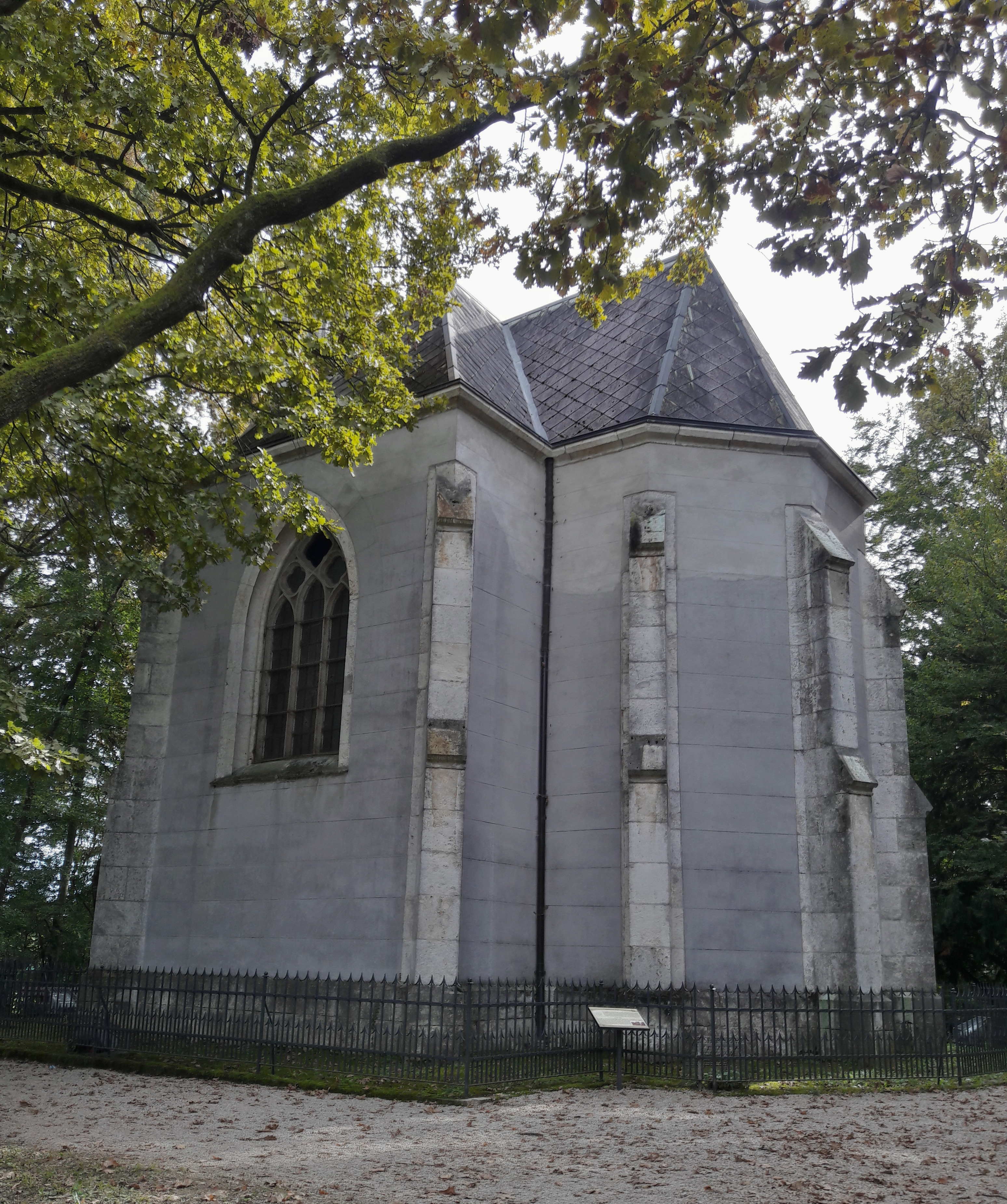 Saint Juraj's Chapel in Maksimir Park side view